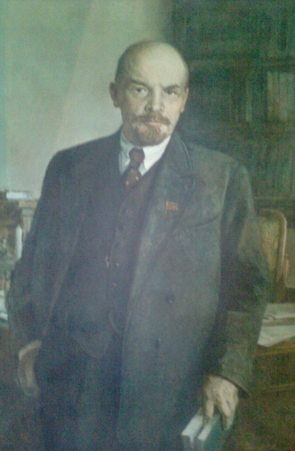 Portrait of Vladimir Ilyich Lenin painted by my great-grandfather.